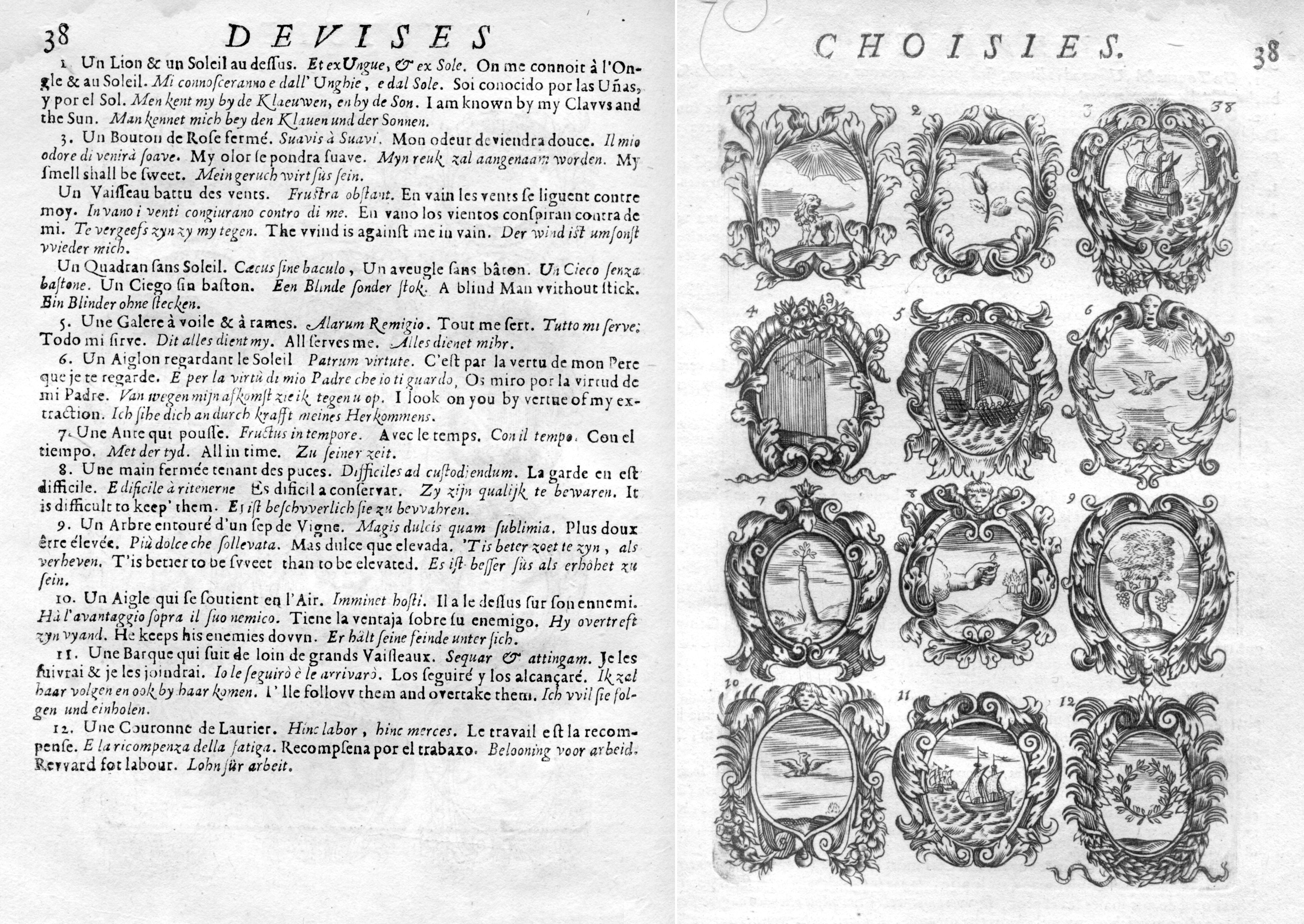 Double-page from "Devises et emblemes anciennes et modernes" by Daniel de la Feuille. Amsterdam 1691.